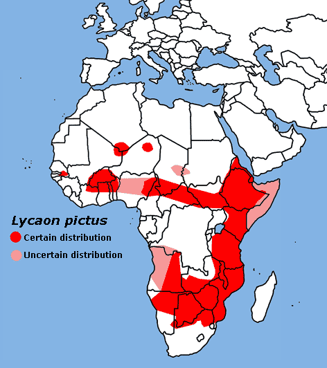 Untagged range map of Lycaon pictus